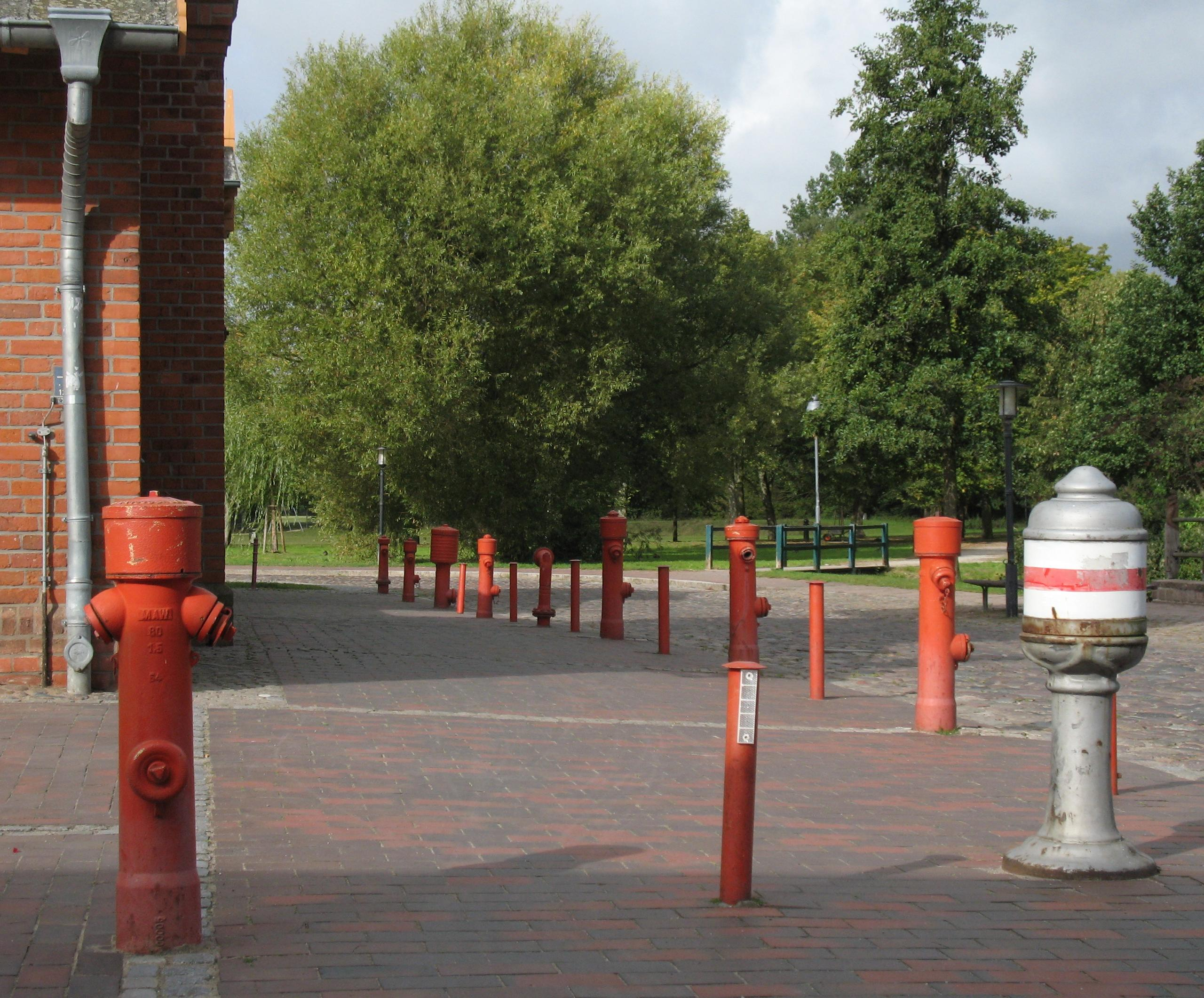 Fire hydrants in Teterow in Mecklenburg-Western Pomerania, Germany